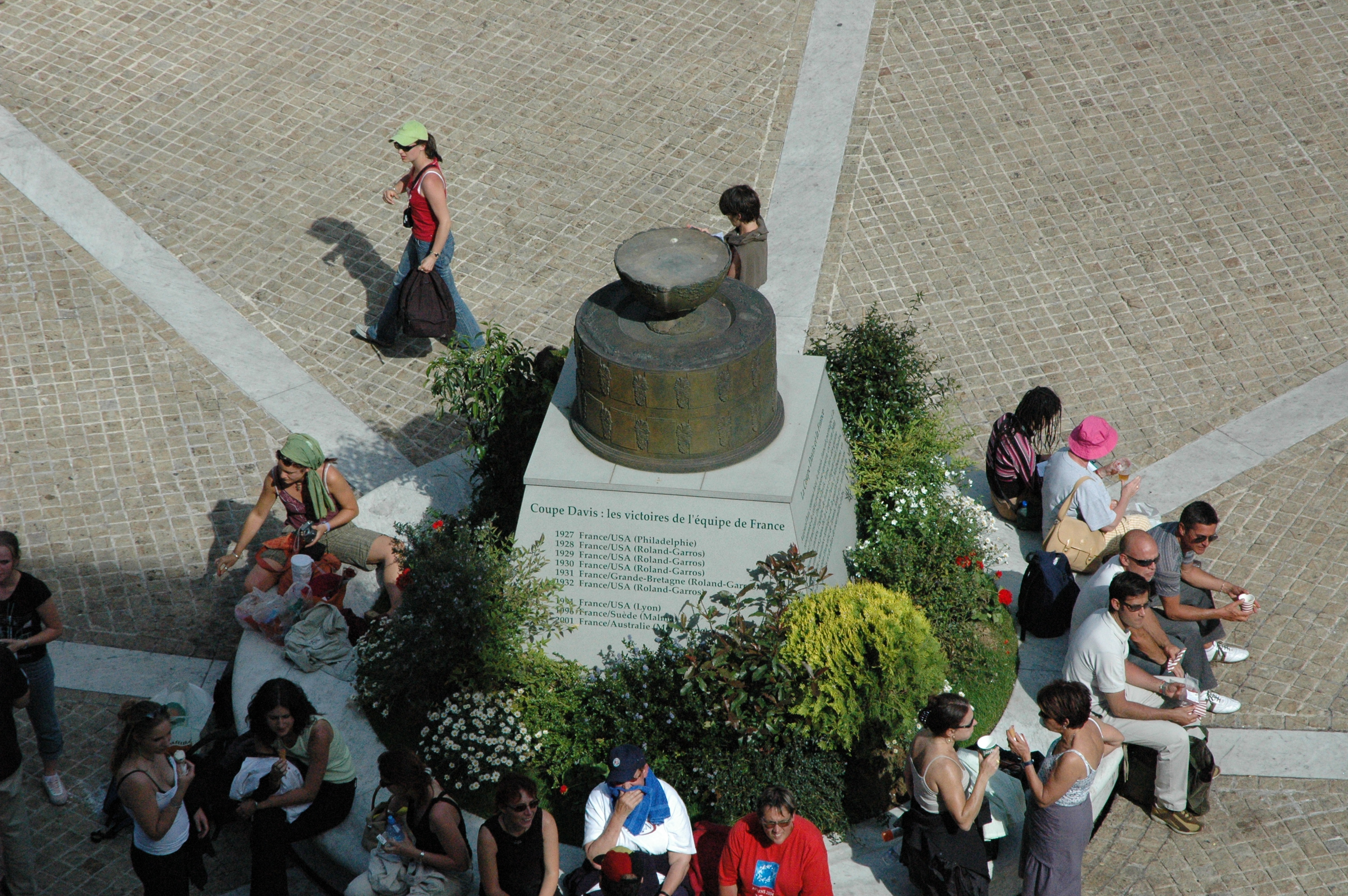 Davis Cup monument at Stade Roland Garros in Paris.